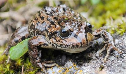 Nanorana pleskei from Haa District, Bhutan. Photo by Karma Wangdi, published in Wangyal, J. T. 2013. New records of reptiles and amphibians from Bhutan. Journal of Threatened Taxa 5:4774–4783.